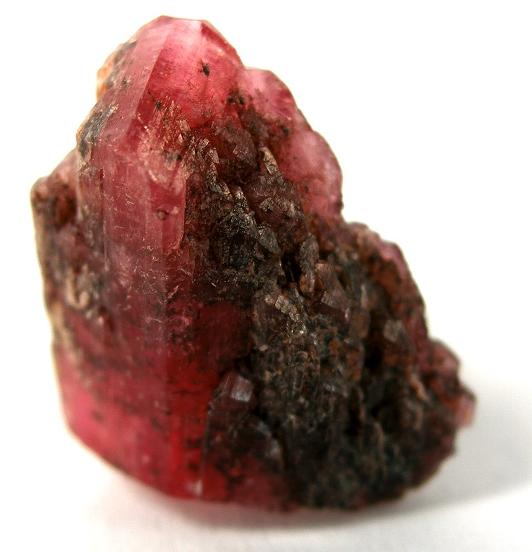 Vayrynenite Locality: Paprok, Nuristan Province (Nurestan; Nooristan), Afghanistan (Locality at ) Size: thumbnail, 1.7 x 1.4 x 0.6 cm Vayrynenite A rather large, unusually robust crystal of this highly desirable, and very rare species which seems to be trickling out of Afghanistan a few per year. i have now and have seen a few thumbnail shards, 8-9mm, rough edges, for $2000. Its a rare thing as you know and the prices in Afghanistan are as if they were rubies, all sold by weight! This is one of the fattest crystals I have seen, even though I have seen some smaller, gemmier ones. I thin, thus, it has a pretty good significance for the price.